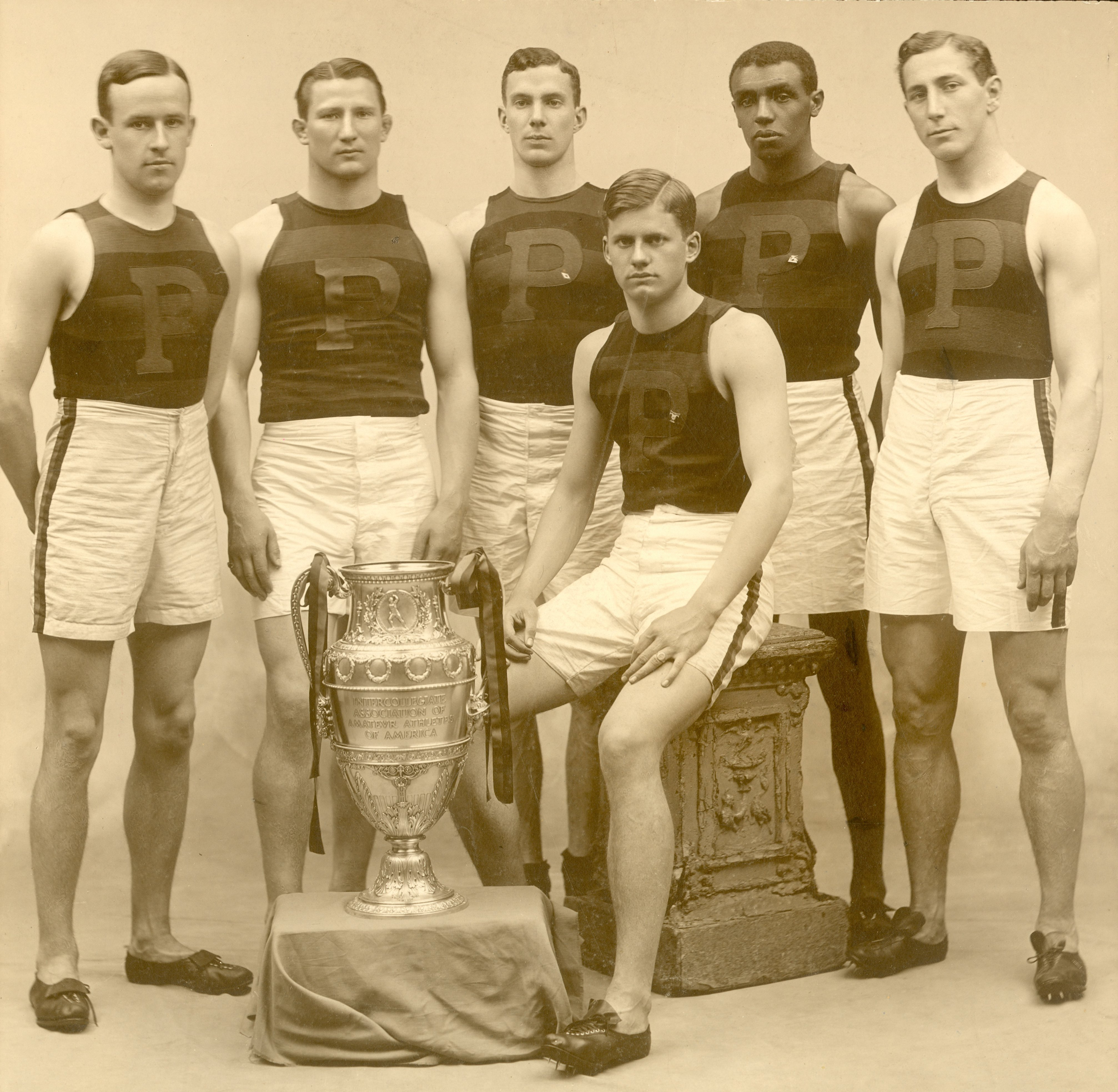 Track (men's), 1907 ICAA point winners, group photograph, University of Pennsylvania